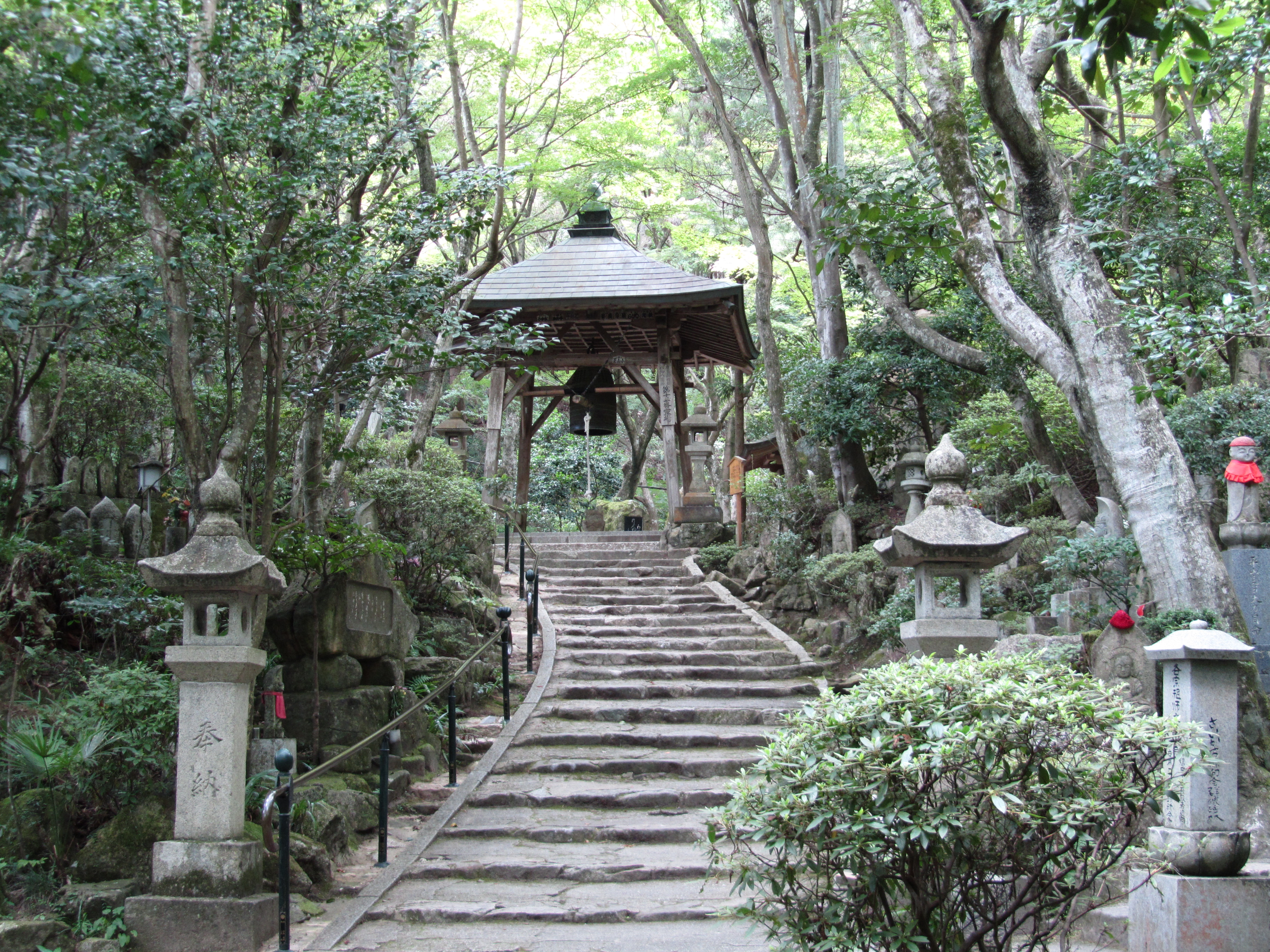 Mitaki-dera - shoro